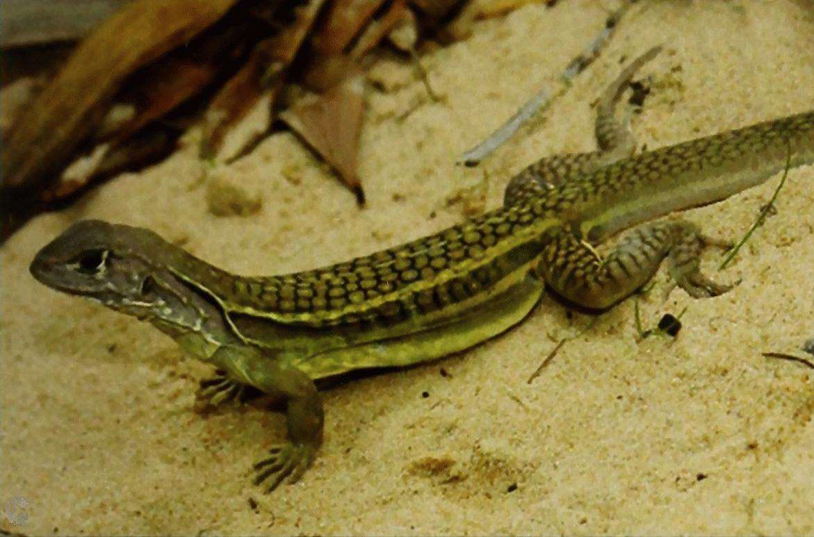 Zoologisches Forschungsmuseum Bonn - Leiolepis ngovantrii Cut-out from original (Bonn zoological bulletin (2010) (20385683442).jpg) shown below